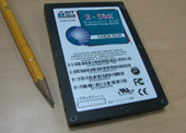 a 2.5 inch Solid state disk, E-disk from Bitmicro